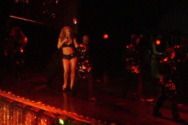 Mariah Carey performing on her Adventures of Mimi Tour in 2006